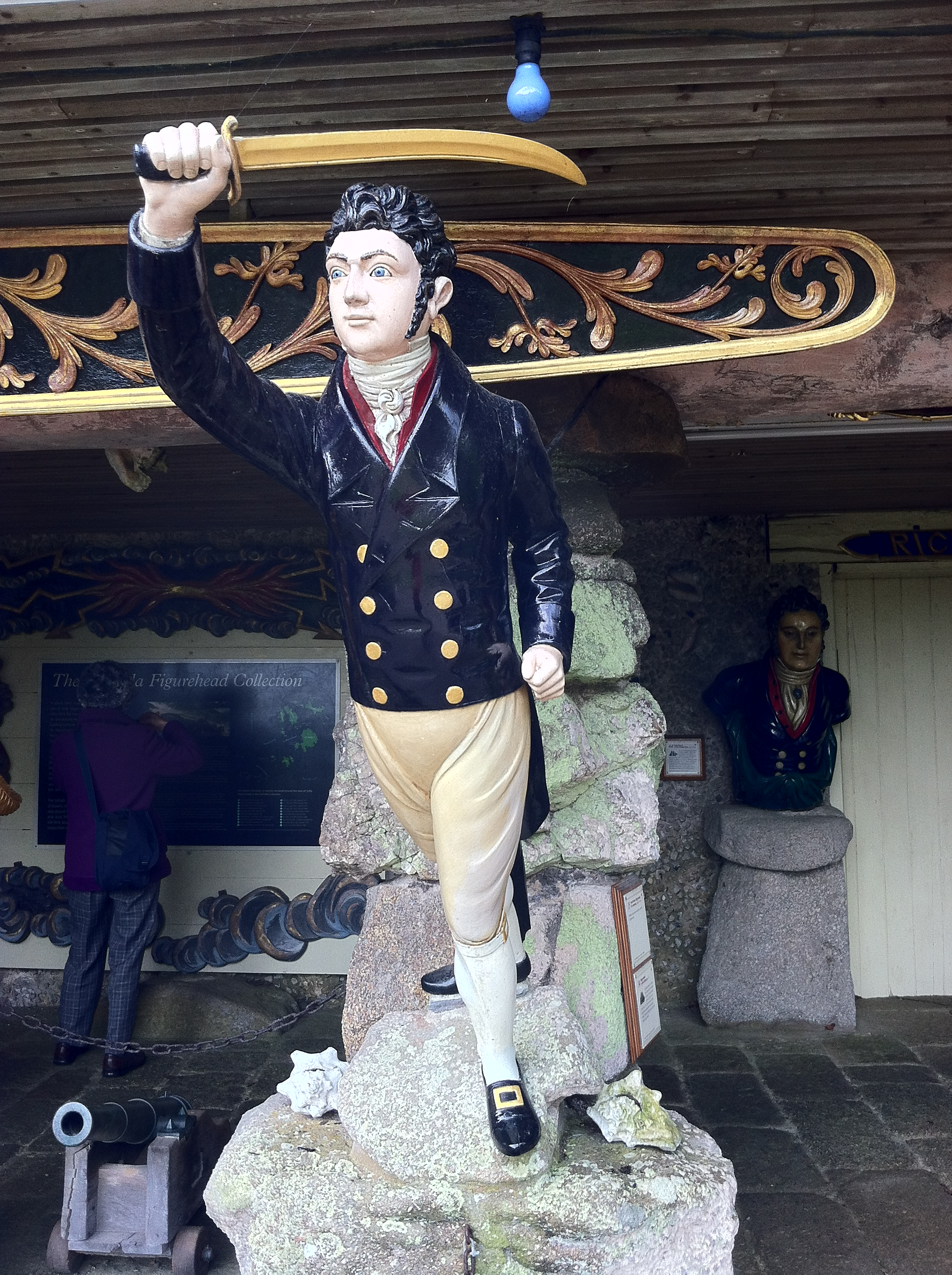 The barque Palinurus was sailing from Demerara (now in Guyana) to London in 1848 when she went onto Lion Rock, north of St. Martin's, Isles of Scilly. All 17 crew were drowned, eventually being washed ashore and buried on St. Mary's, Isles of Scilly. In the Valhalla Museum in Tresco Abbey Gardens, Isles of Scilly.